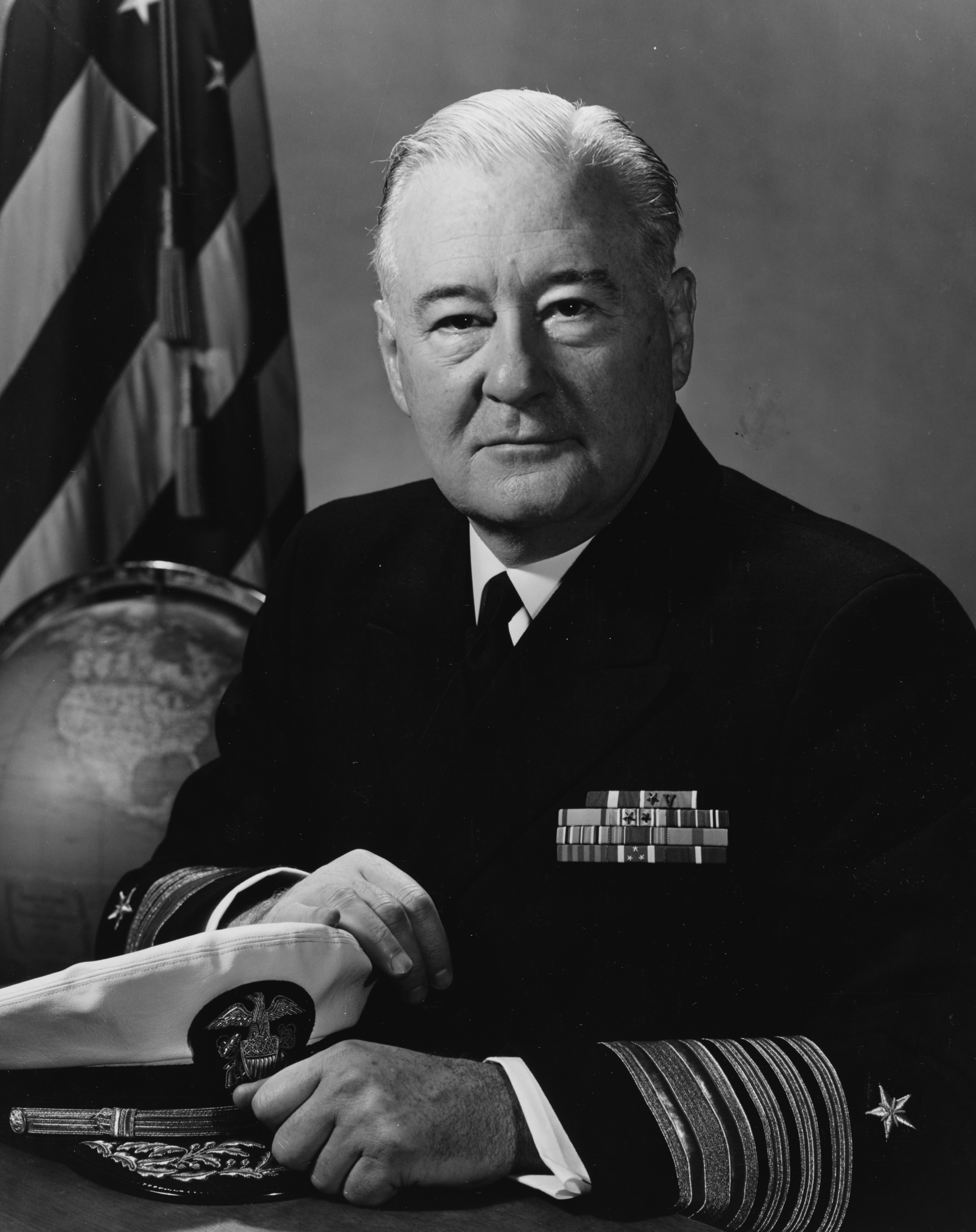 Official US Navy photo of Admiral Harold Page Smith. Work of U.S. fedel government, ineligible for copyright